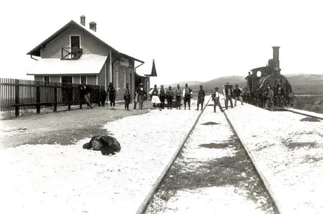 Photograph of Eksisou railway station, Ottoman Empire (today Xino Nero, Greece) on the Thessaloniki-Monastir line, 164.8 km. On some web sites this image is wrongly referred as "Sorovits (Amyntaio) Railway Station".